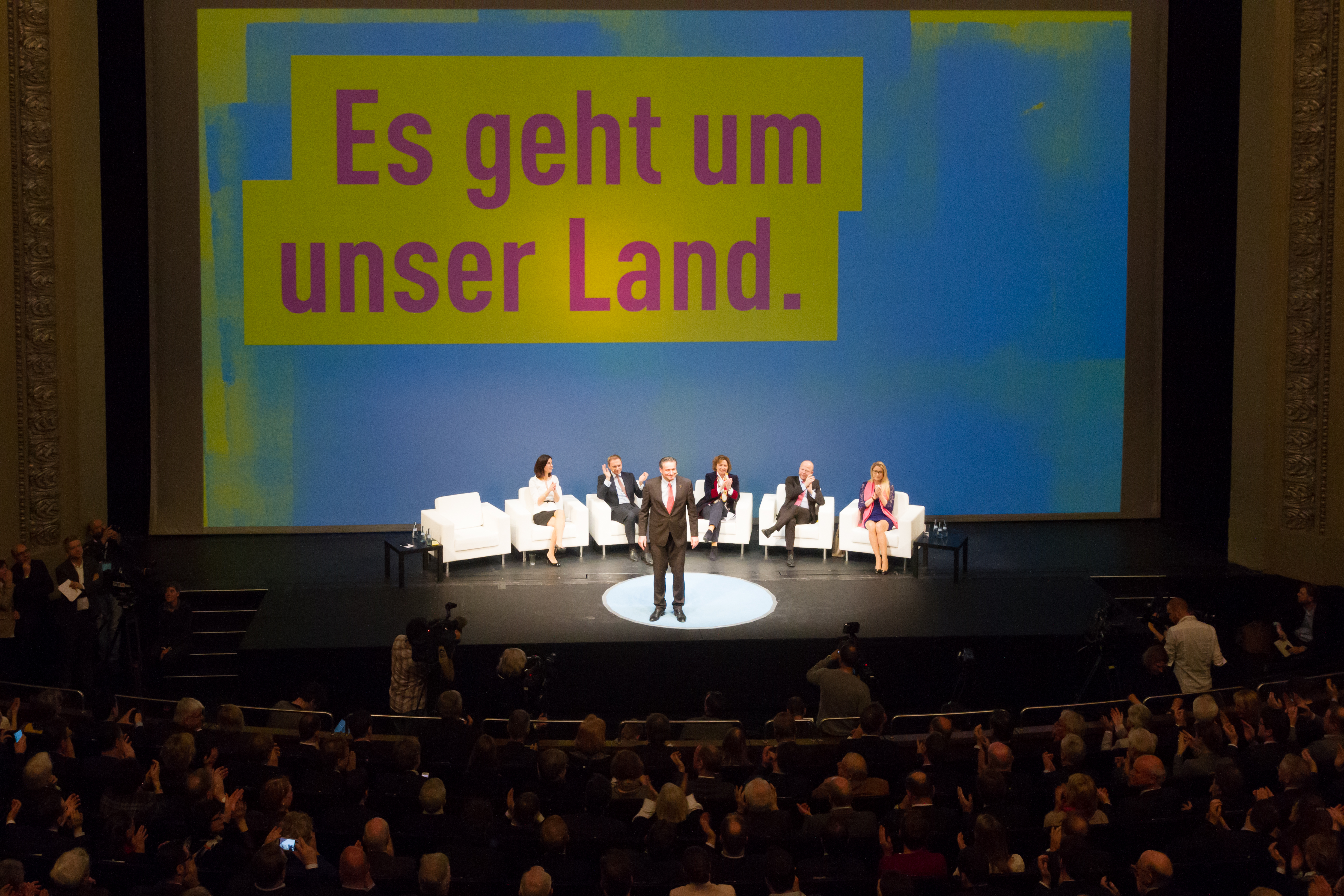 Series: Liberals' Epiphany rally hosted by the FDP Baden-Württemberg in the opera house of Stuttgart on January 6, 2015 Image: overview of the stage and the audience